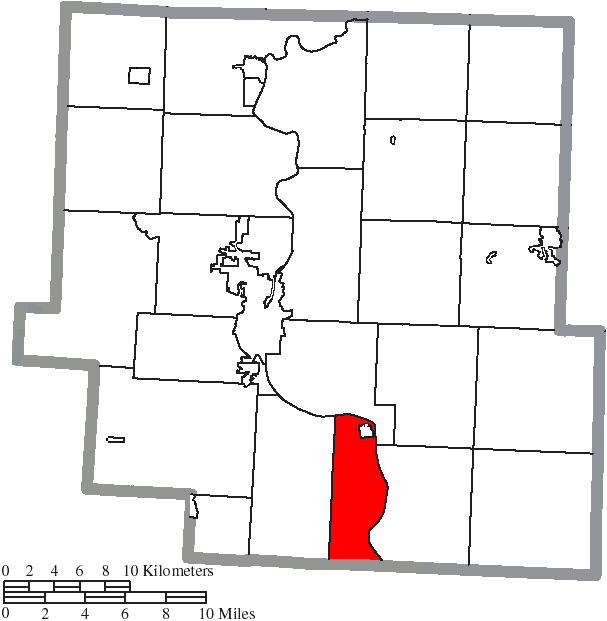 Map of the municipal and township boundaries of Muskingum County, Ohio, United States, as of the 2000 census, with the location of Harrison Township highlighted. Township borders are shown only in unincorporated areas in order to differentiate incorporated and unincorporated areas more clearly.